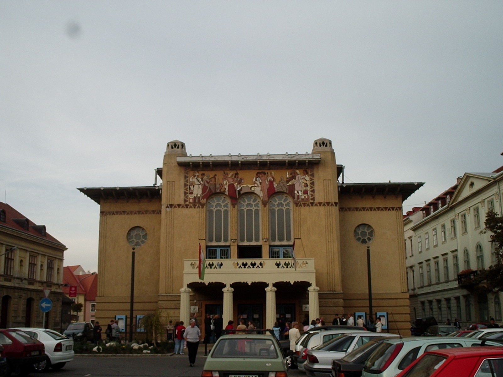 Petőfi Theatre, Sopron, Hungary